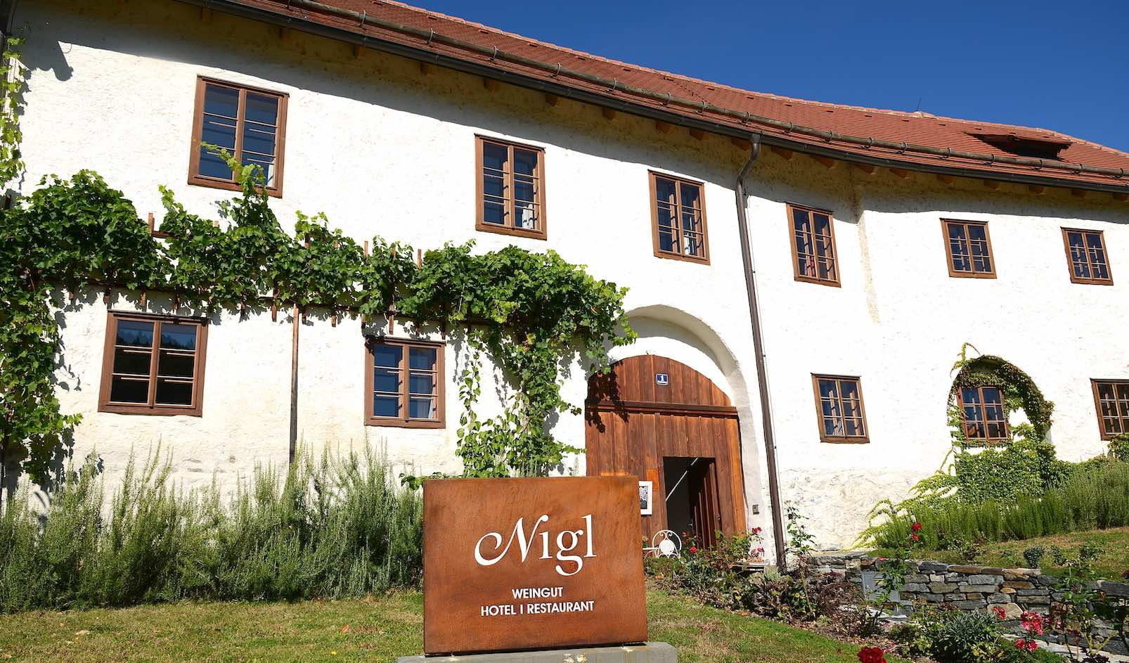 Weingut Nigl